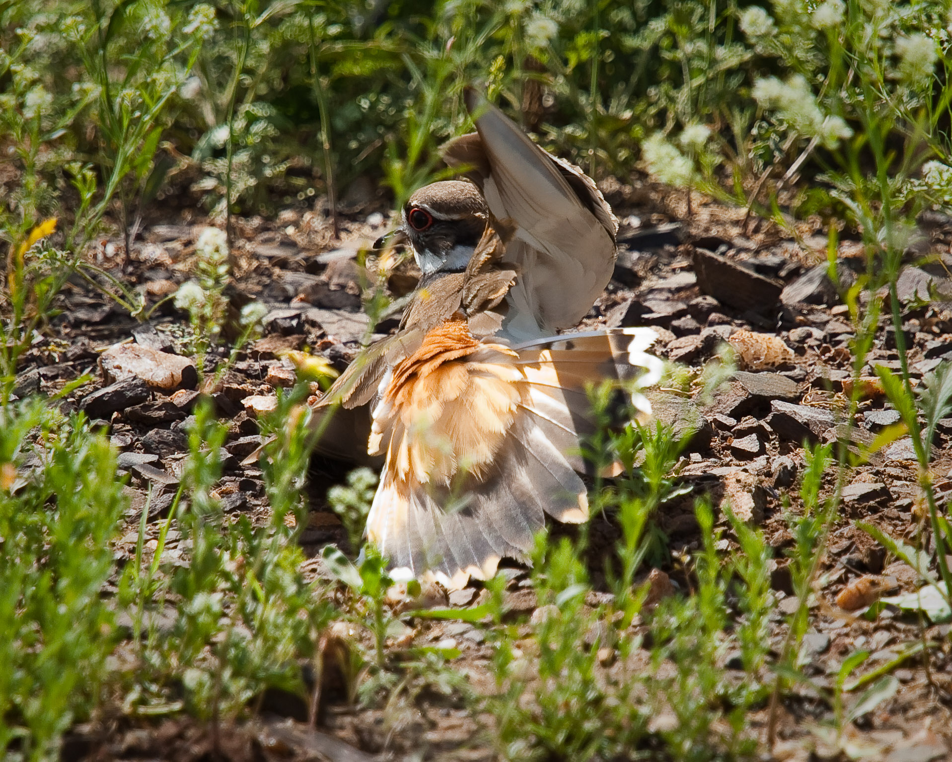 Killdeer in a field near County Rd 309 in Llano County, Texas, USA, near Packsaddle Mountain. When I approach this area the bird started a broken wing simulation so I presume she had a nest nearby. After a few minutes when I did not approach any closer she quit pretending and walked off.